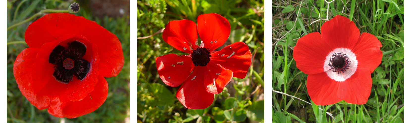 From right to left: Anemone coronaria, Ranunculus asiaticus, Papaver umbonatum